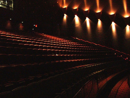 An empty IMAX Theater